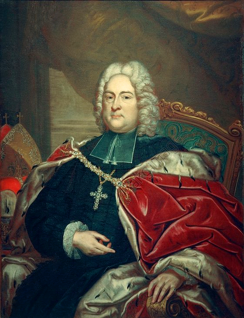 Schönborn, Johann Philipp Franz, Reichsgraf of, Prince Bishop of Würzburg (1719–24); Würzburg 15.2.1673 – Löffelstelzen near Bad Mergentheim 18.8.1724. Portrait. Painting, c. 1713 / 16, by Frans van Stampart (1675–1750). Oil on canvas, 125 × 90 cm. Vienna, collection Schönborn-Buchheim.BILDNUMMERAKG345310